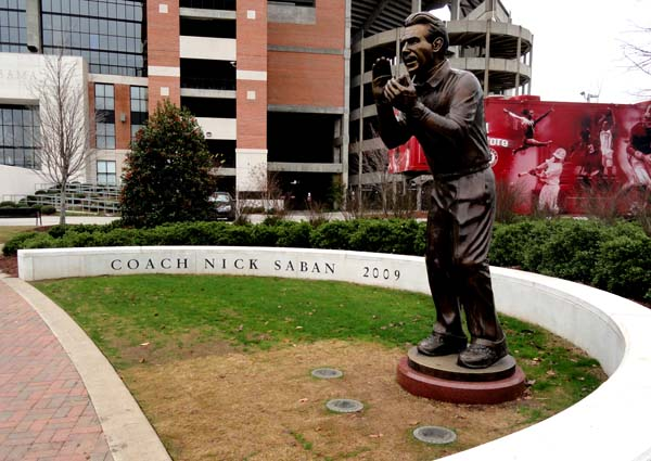 Statue of Alabama Crimson Tide football head coach Nick Saban on the University of Alabama campus in front of Bryant–Denny Stadium.